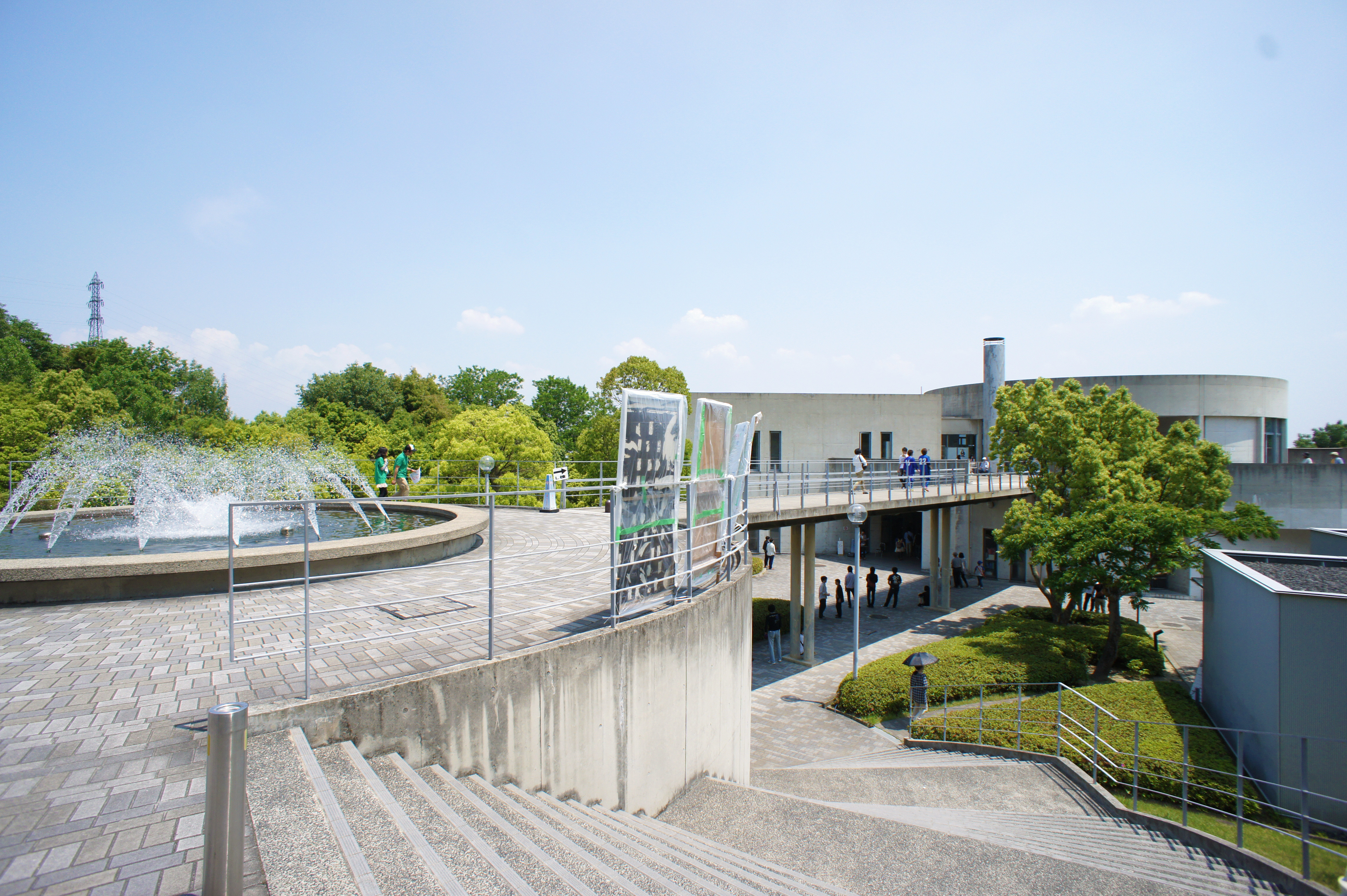 Kansai University Takatsuki Campus, 2-1-1 Ryozenjicho Takatsuki-City Osaka Japan.